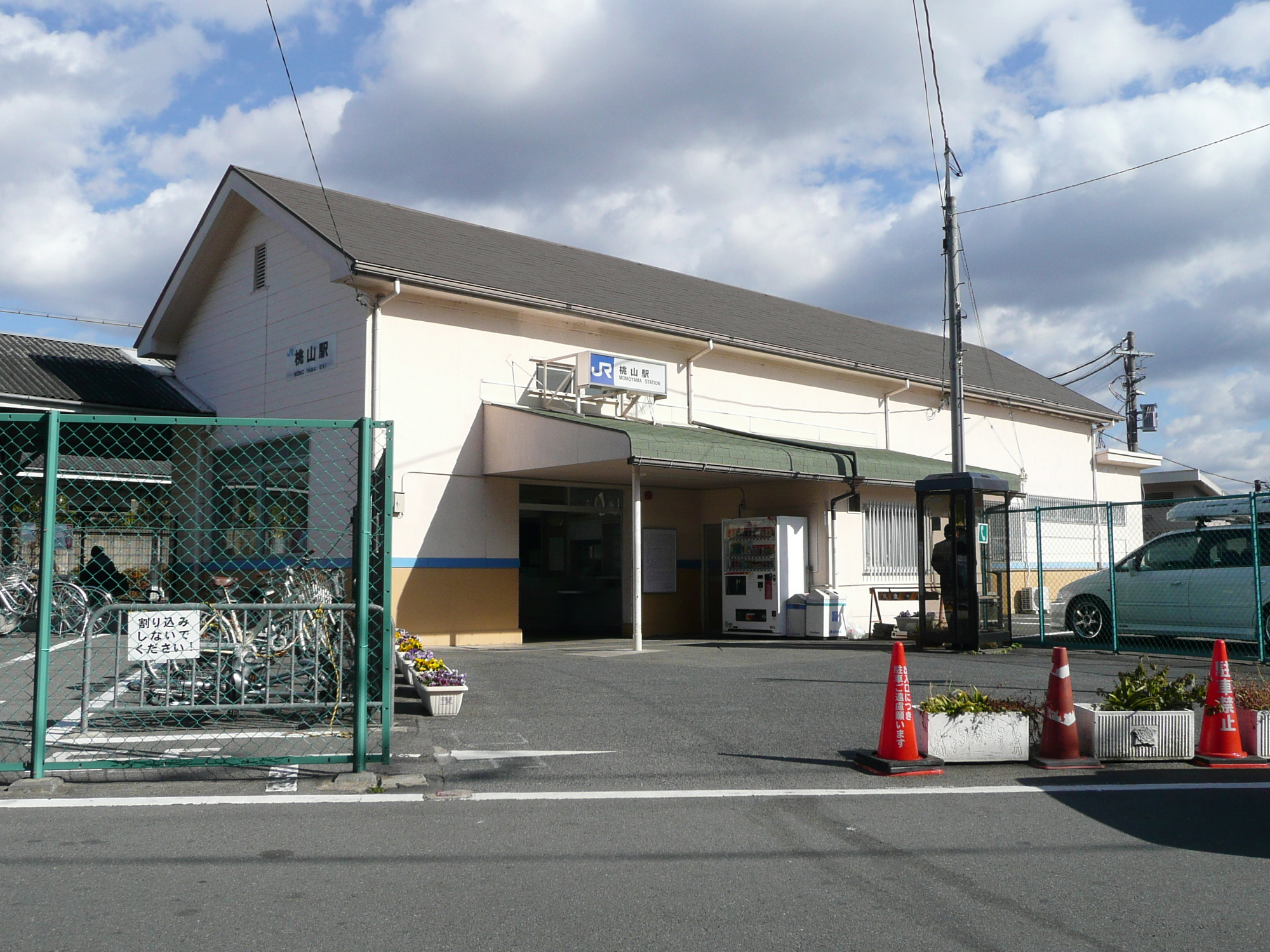 West Japan Railway,Nara Line,Momoyama Station. / 奈良線桃山駅